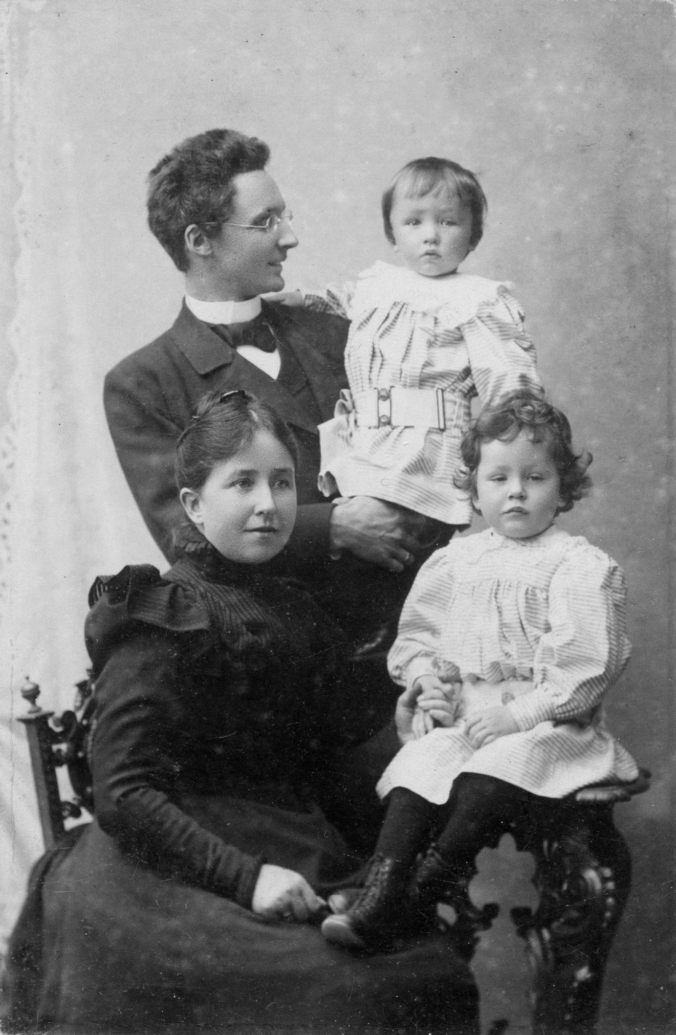 Vilhelm Bjerknes with his wife Honoria and their first two sons Karl Anton and Jacob Aall Bonnevie Bjerknes,circa 1897